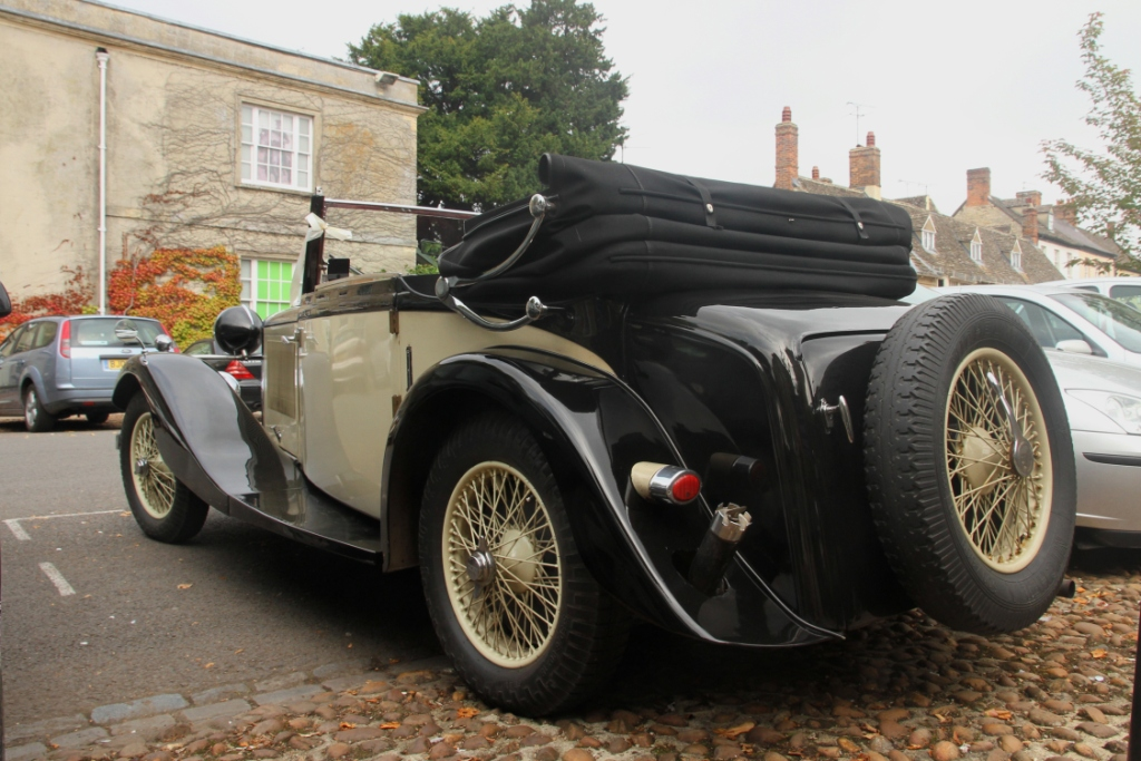 1933 Talbot 105 drophead coupé (DVLA) first registered 13 December 1933 2969 cc